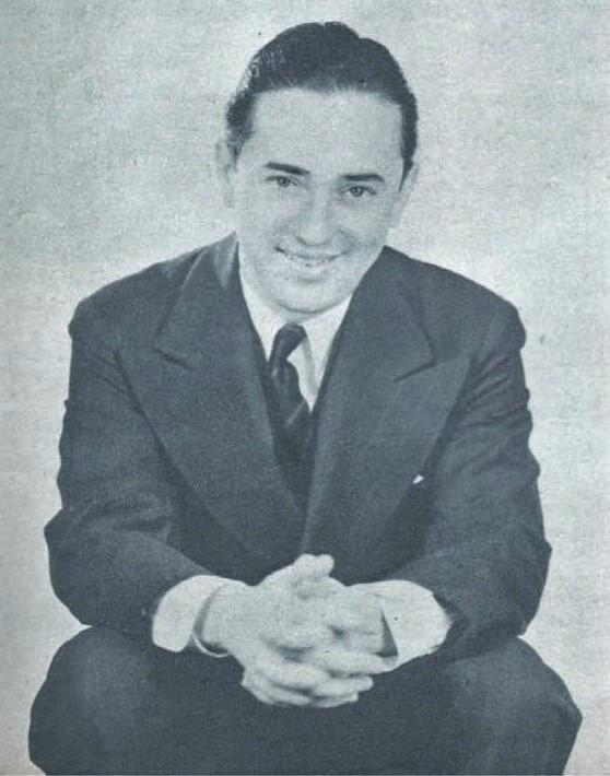 Robert E. Dolan (Bobby Dolan), 1937 - Radio Guide July 1937